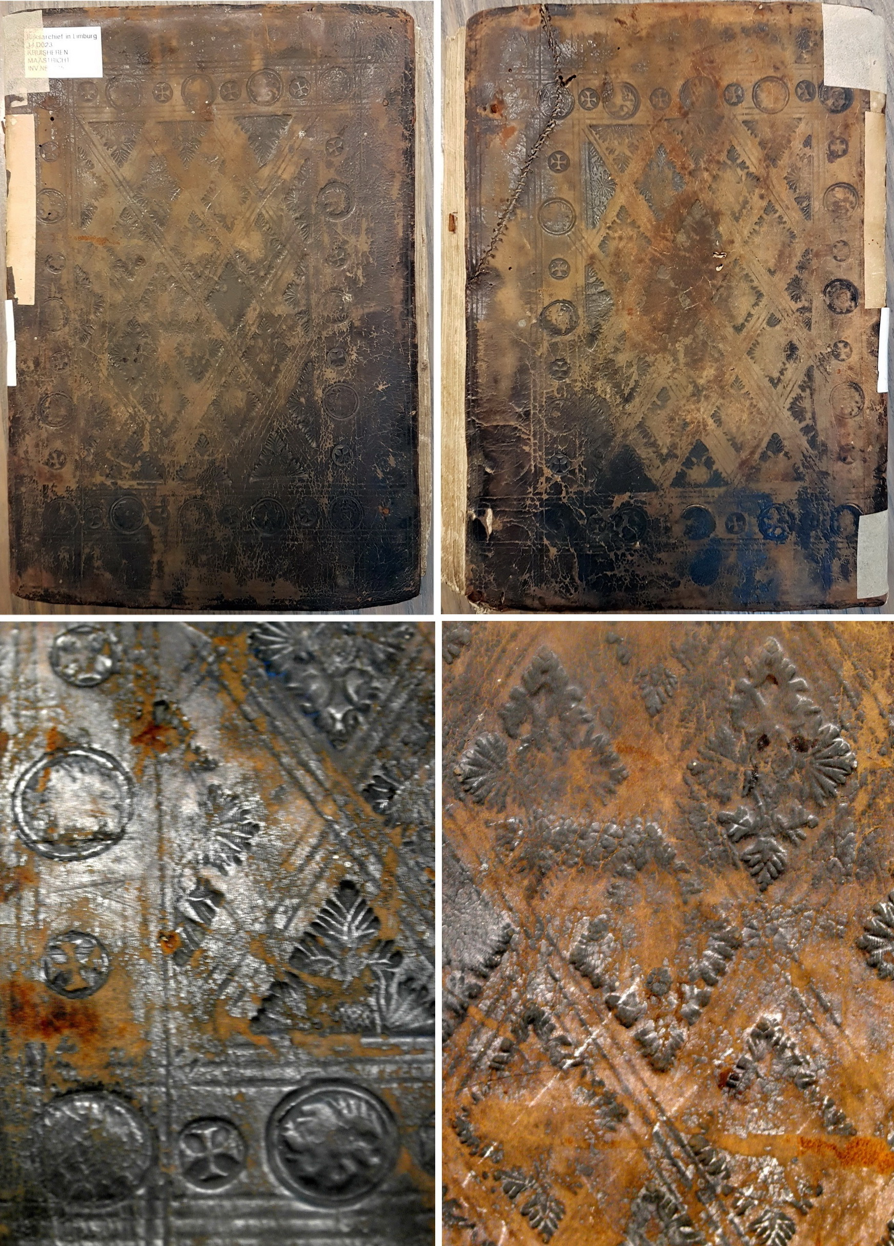 Montage of a 16th-century book cover, made of calf leather and decoratively embossed, produced in the Monastery of the Crutched Friars (Croziers) in Maastricht, the Netherlands. The cover was used for binding the financial administration of the monastery of 1550-1572. The book is part of the Croziers Archives (Kruisherenarchief), one of the completest monastery archives in Western Europe, in the RHCL in Maastricht. (this montage uses 4 photos, all taken by Kleon3)